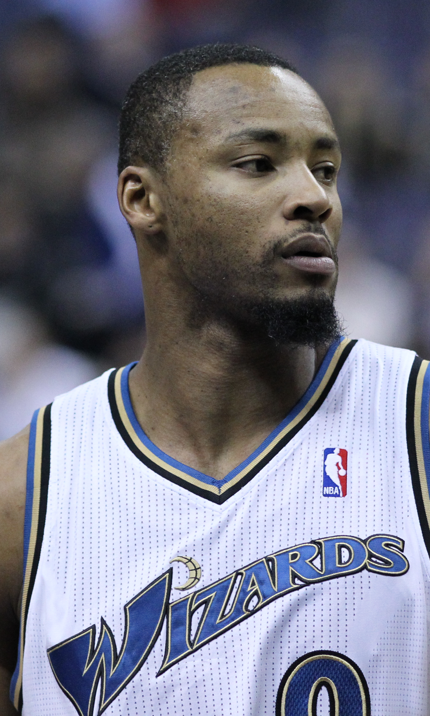 Washington Wizards v/s Denver Nuggets January 25, 2011